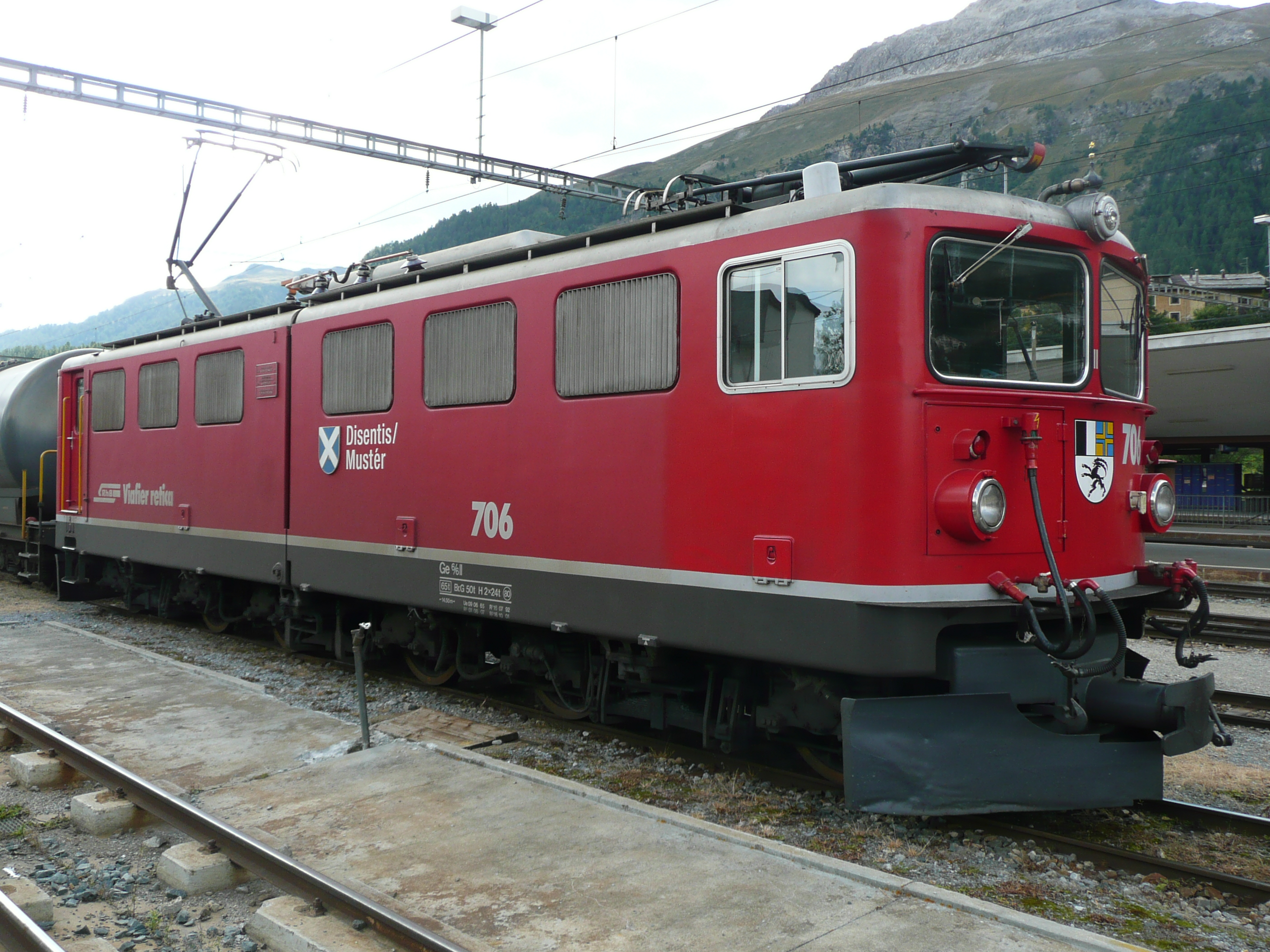 GE 6/6 II No. 706 at Davos station